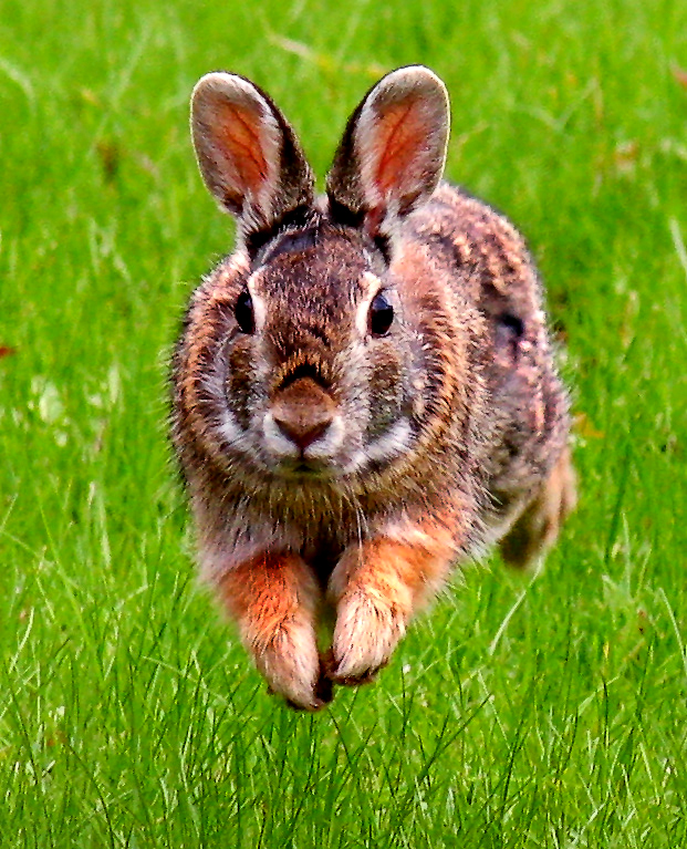 Eastern Cottontail